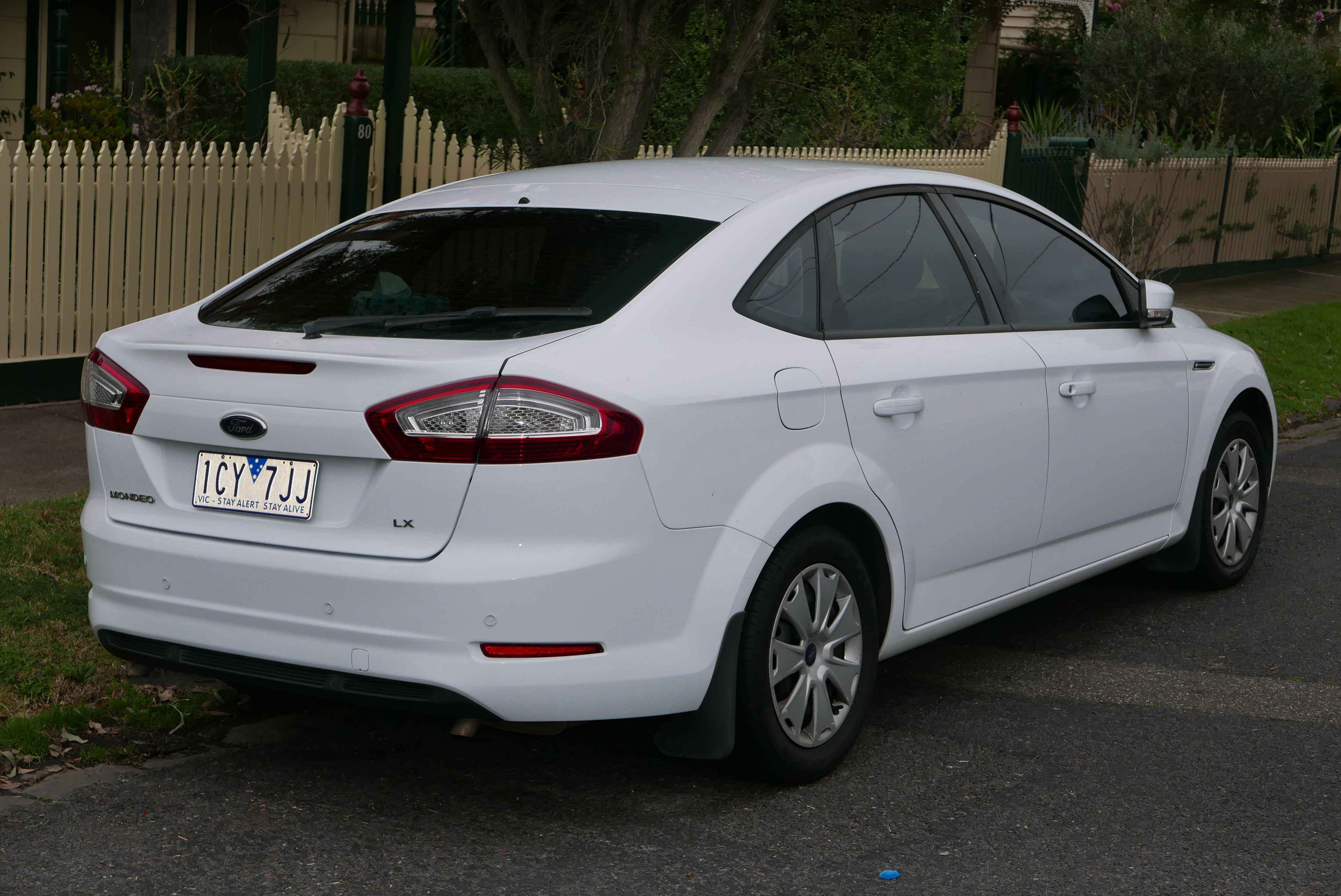 2011 Ford Mondeo (MC) LX hatchback. Photographed in Coburg, Victoria, Australia. Vehicle registration enquiry results Jurisdiction Victoria Registration 1CY7JJ Chassis code WF0EXXGBBEBD82426 Engine code SEBABD82426 Compliance date 2011-05 Year of manufacture 2011